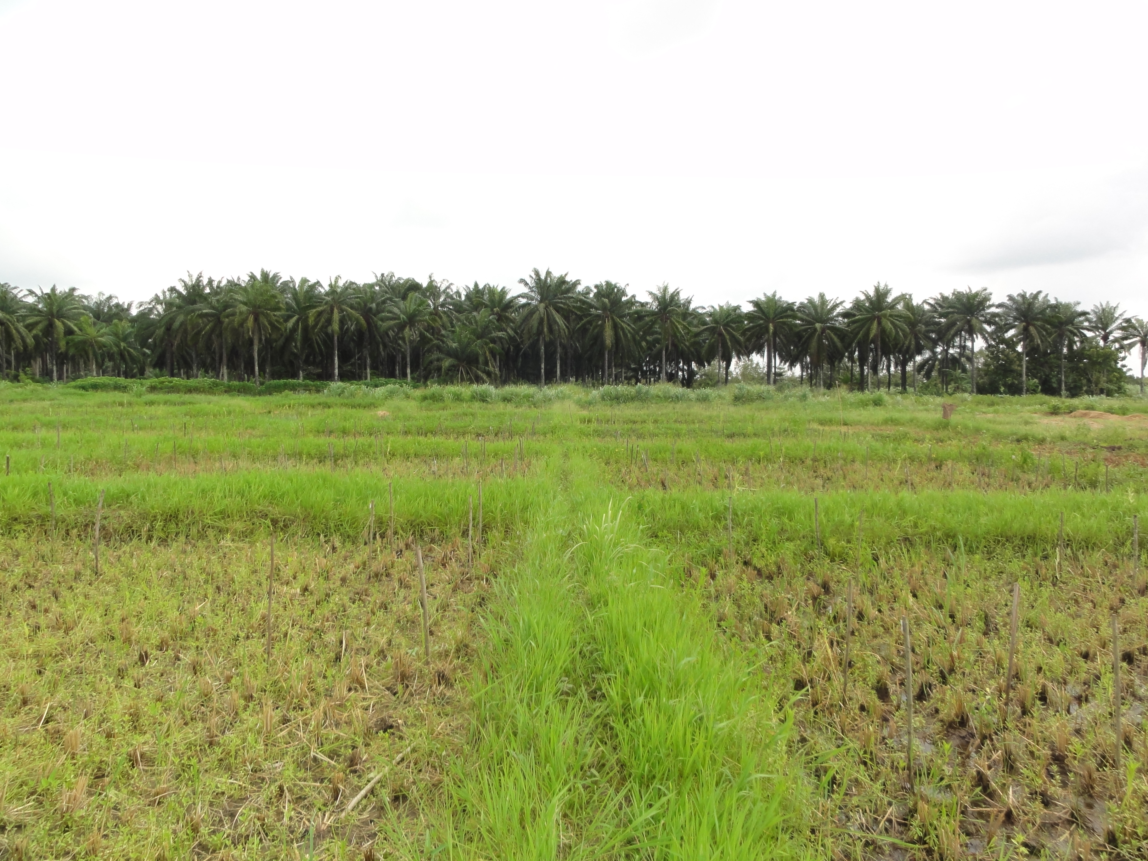 Rice cultivation in Benin